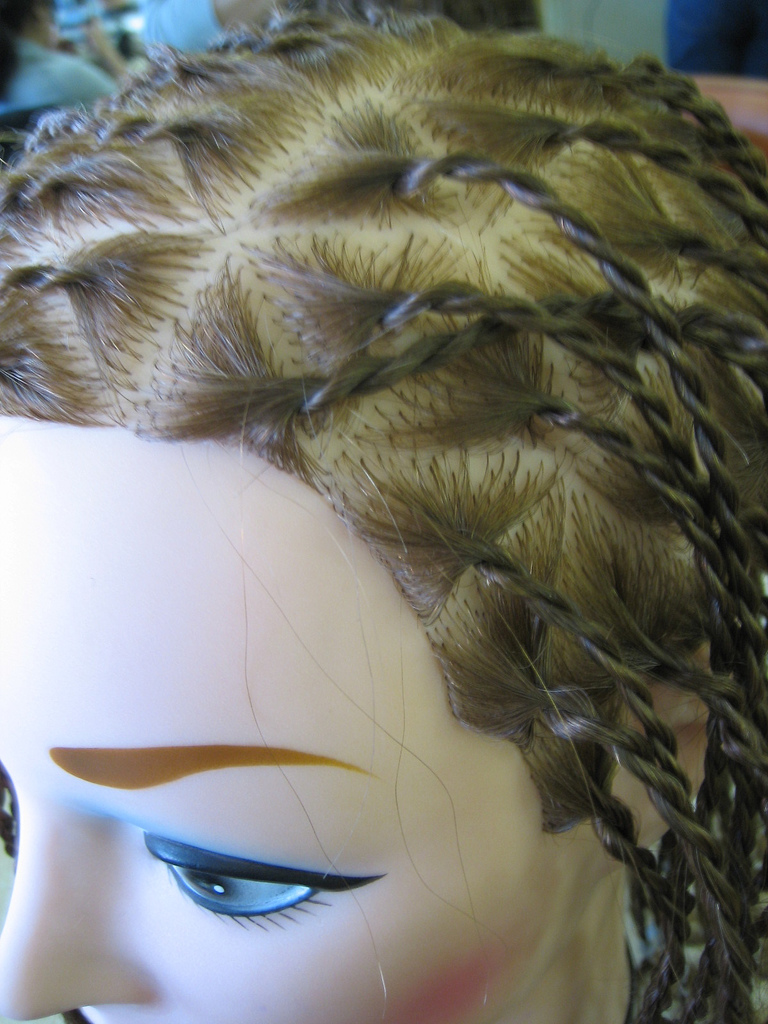 United States hairstyle called twists, popular with the Africa-American community